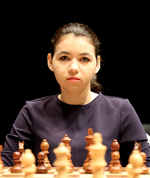 Alexandra Goryachkina at Superfinal of the Russian Chess Championship, Satka, 2018